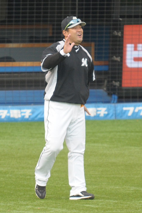 Tsutomu Ito, manager of the Chiba Lotte Marines, at Chiba Marine Stadium.